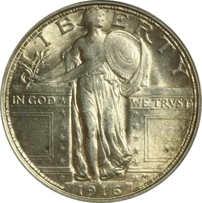 1916 Standing Liberty quarter (obverse)